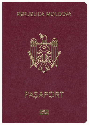 Contemporary Cover Moldovan Passport